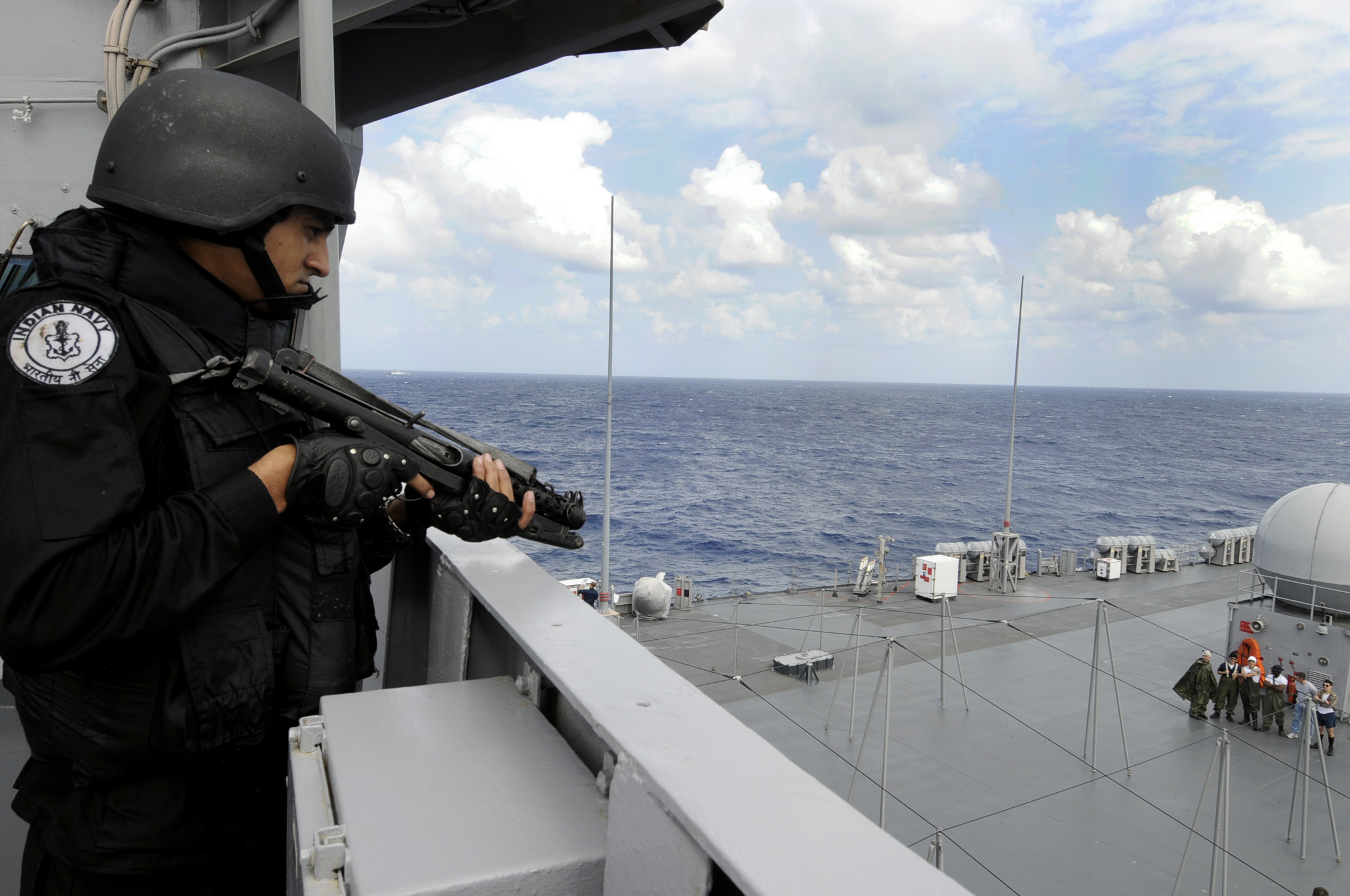 PACIFIC OCEAN (May 1, 2009) A member of the Indian Navy simulates a hostage scenario aboard the amphibious command ship USS Blue Ridge (LCC 19) while conducting a visit, board, search, and seizure drill during Exercise Malabar 2009. The Japan Maritime Self Defense Force (JMSDF) and U.S. Navy are participating in Malabar, an annual exercise led by the Indian Navy. (U.S. Navy photo by Mass Communication Specialist 2nd Class Cynthia Griggs/Released)